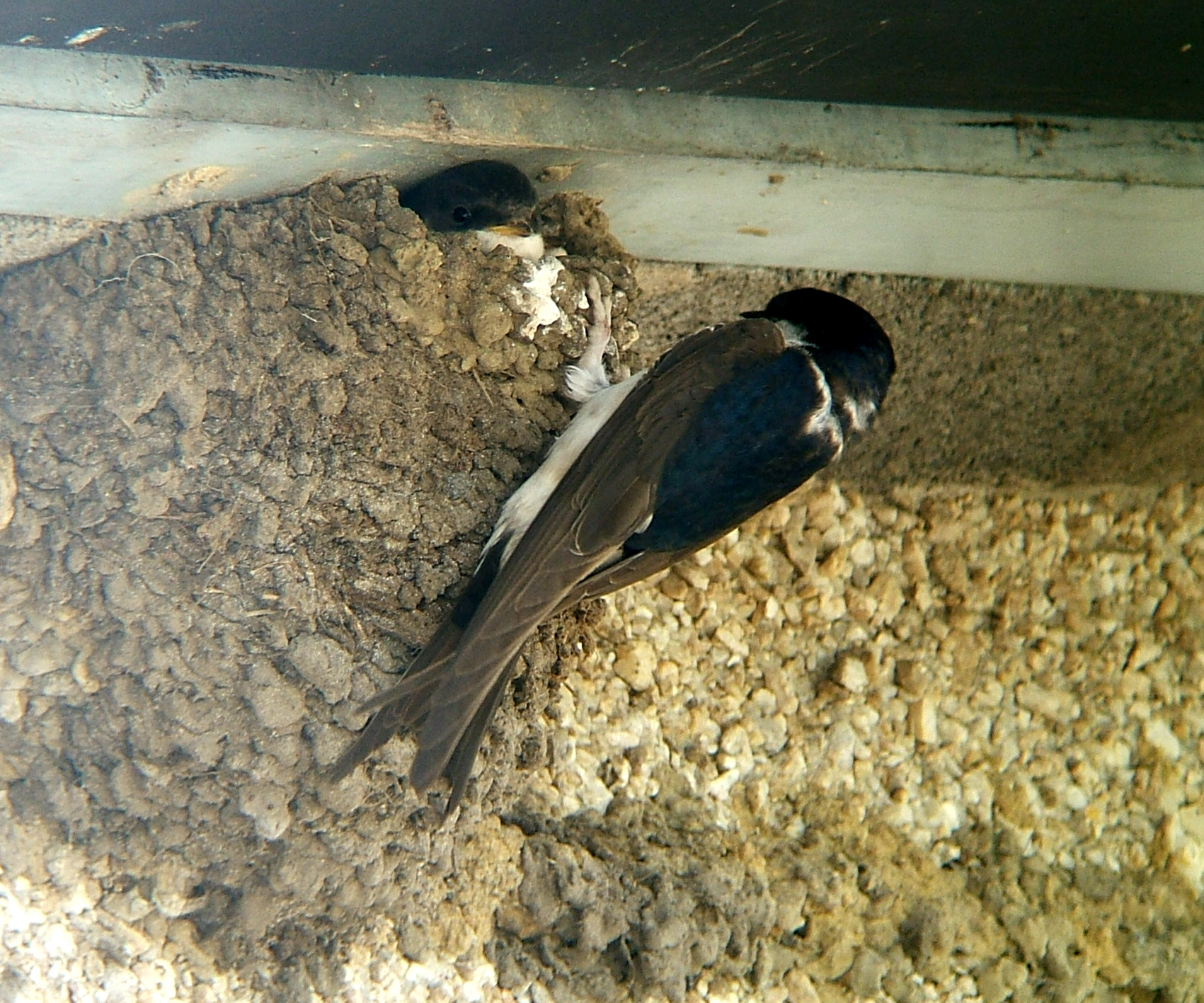 House Martin (Delichon urbicum), West Woodburn, Northumberland, UK. Coordinates intentionally inaccurate (±300 m) to protect privacy of house owner.